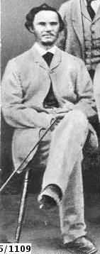 James Frew Jr cropped from File:Sixth Stuart Expedition 1861 PRG280 1 15 1109.jpg